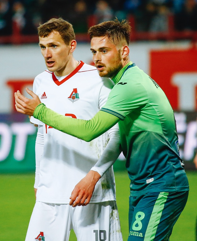 Cătălin Carp (FC Ufa, R) defending Aleksandr Kolomeytsev (FC Lokomotiv Moscow).